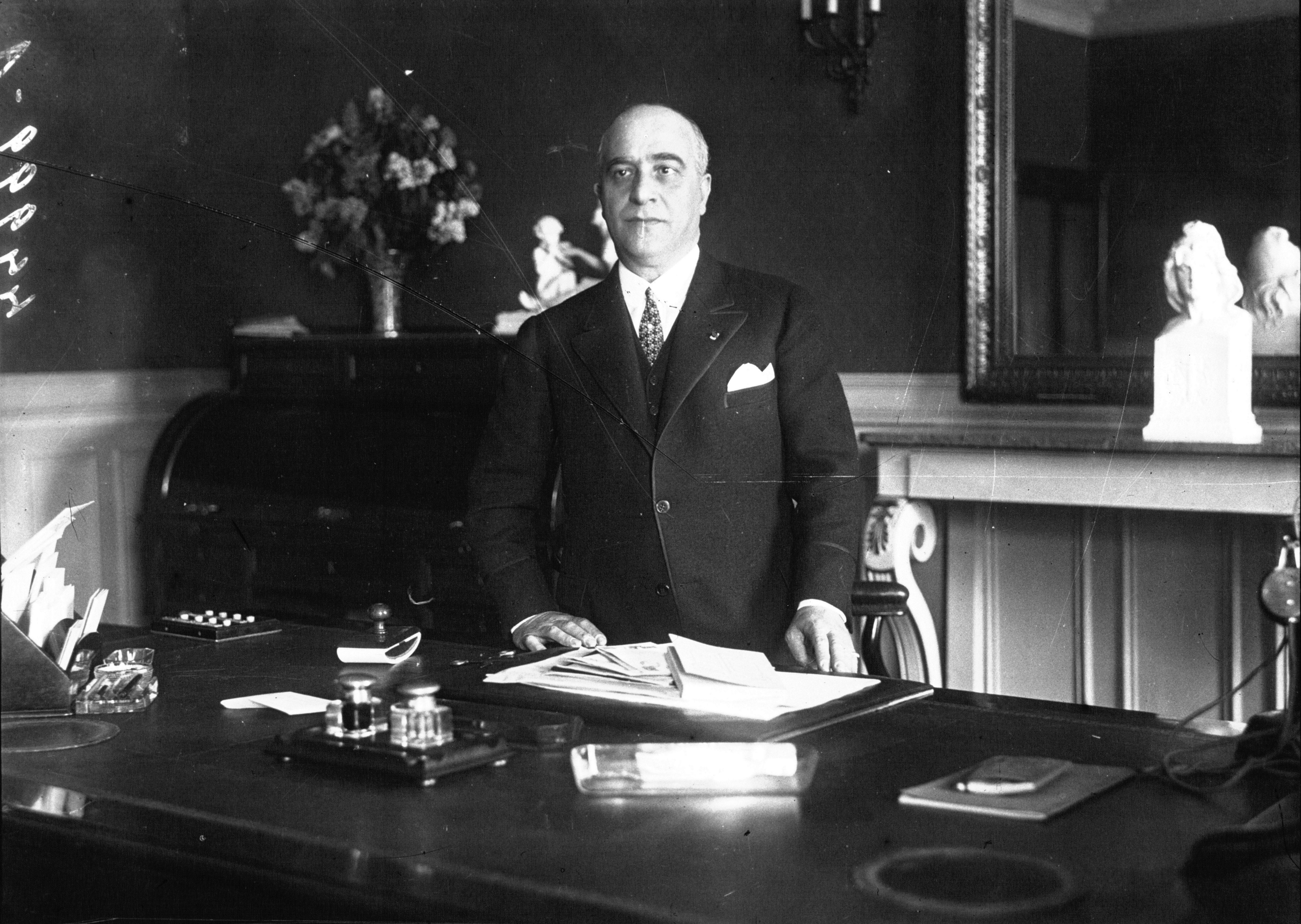 French civil servant and politician Jean Chiappe (1878-1940).